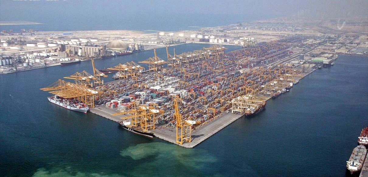 Port of Dubai Emirate, located on Jebel Ali district.